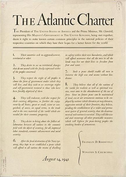 Atlantic Charter National Archives and Records Adminstration Records of the Office of Government Reports Record Group 44 ARC Identifier: 513885